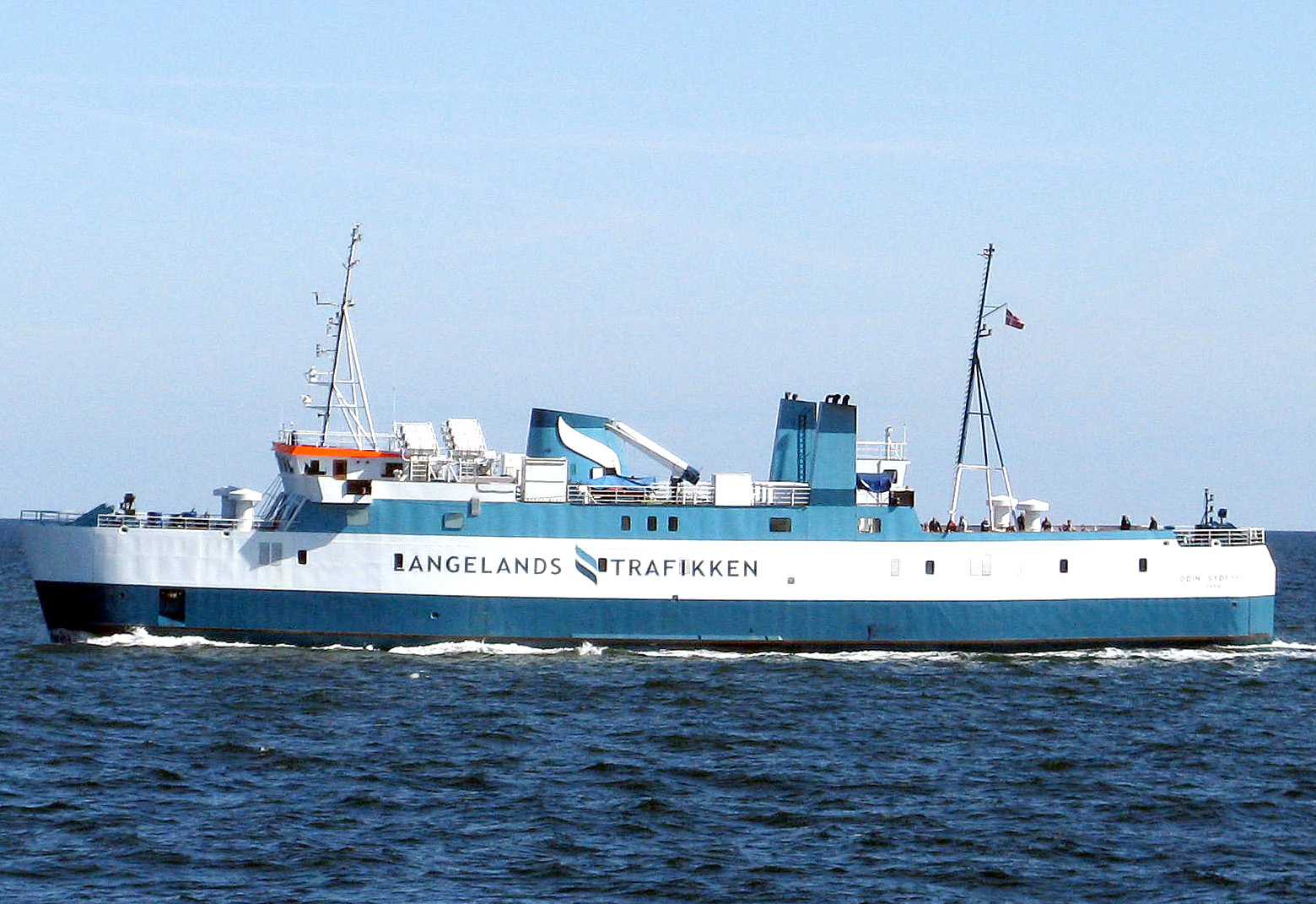 Færgen A/S: Odin Sydfyen between Tårs - Spodsbjerg.